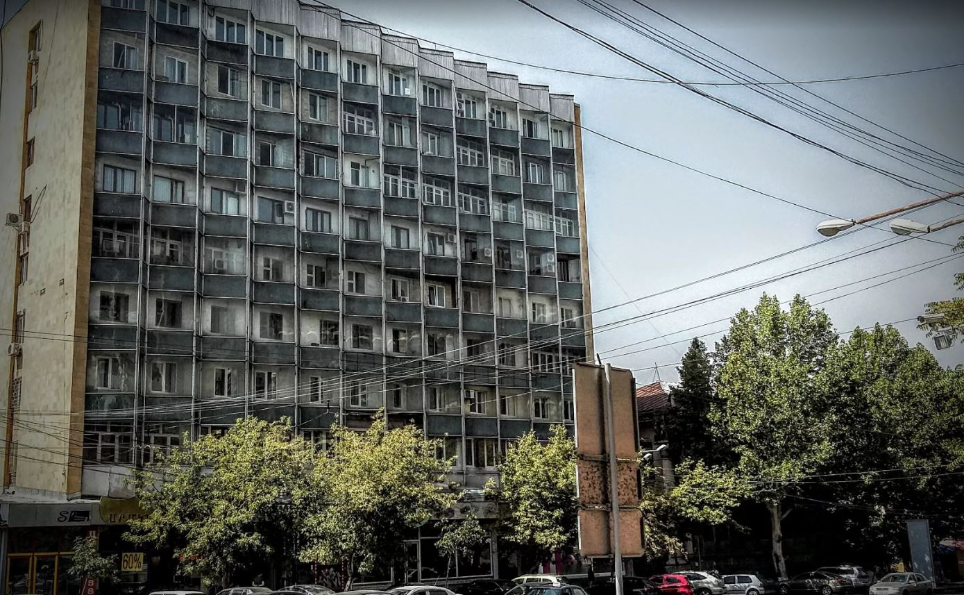 Urartu